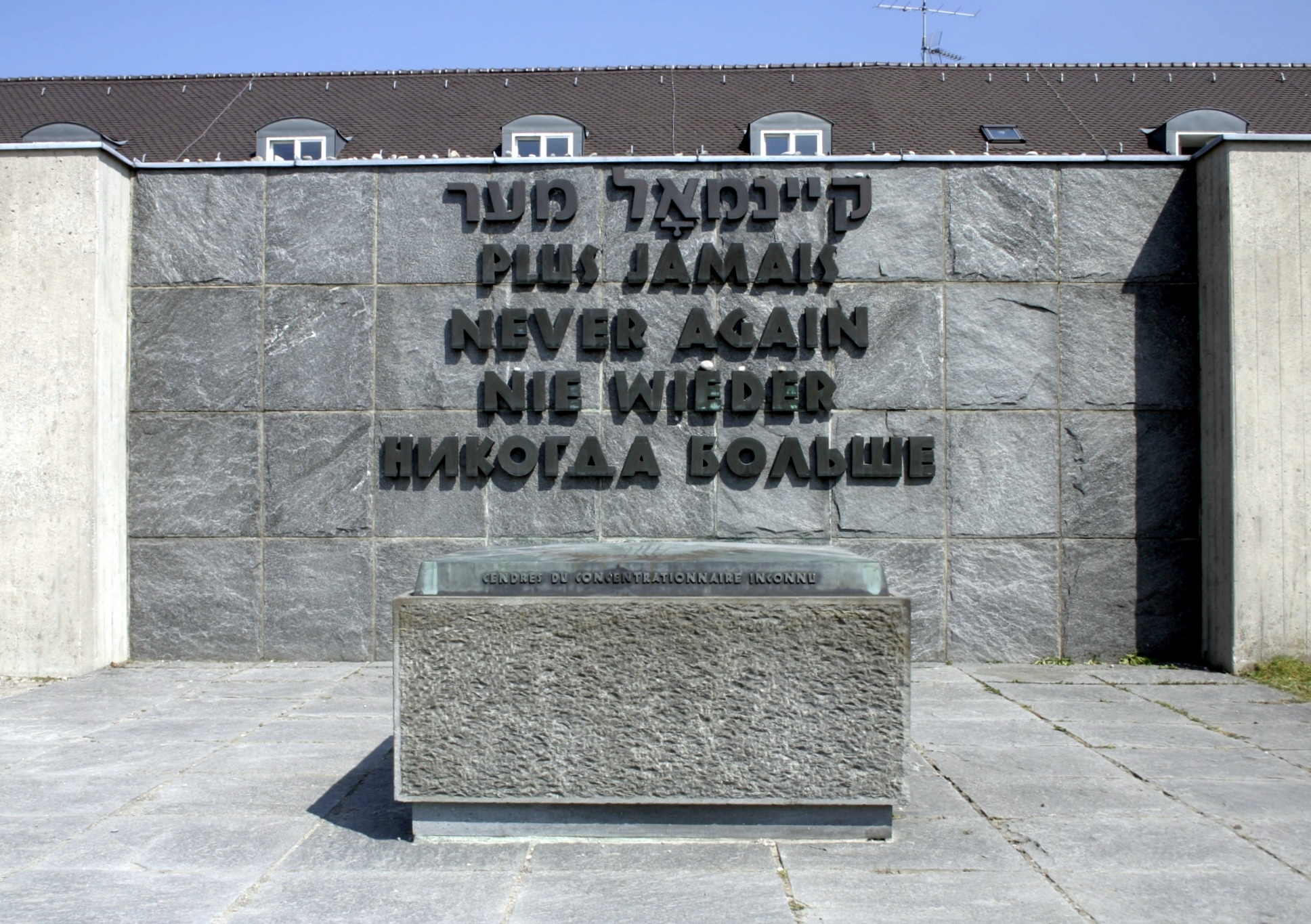 A memorial at Dachau Concentration Camp (Keinmol Mer (Yiddish language), Plus Jamais, Never Again, Nie Wieder, Nikogda Bol'she)